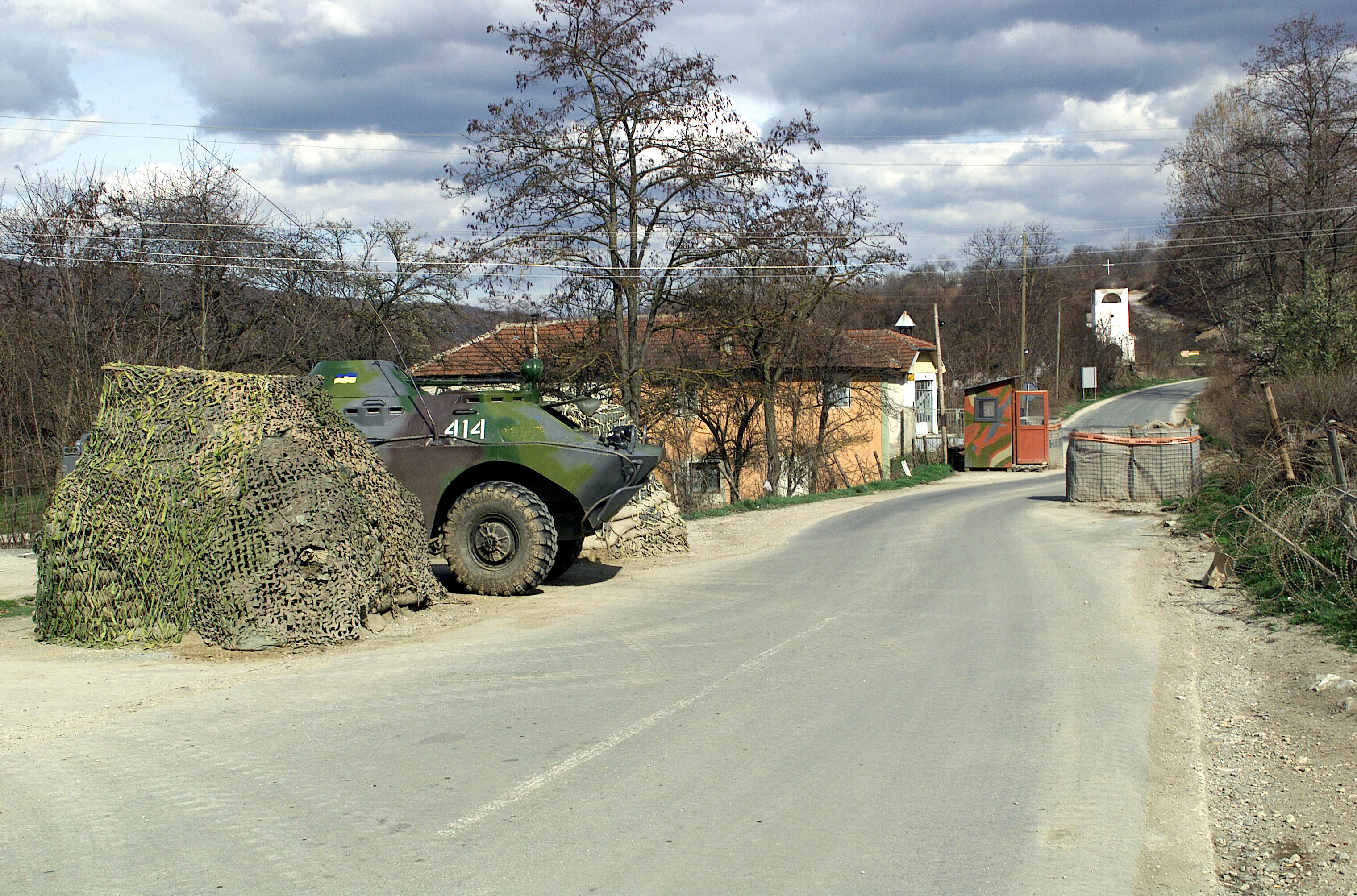 Six vehicles from the Polish-Ukrainian Battalion (Polukrbat) transport food through Ukrainian observation point in Drajkovce, Kosovo, on March 21, 2001. This humanitarian aid is for the Serbian people of Strpce, Kosovo, from the German Red Cross.